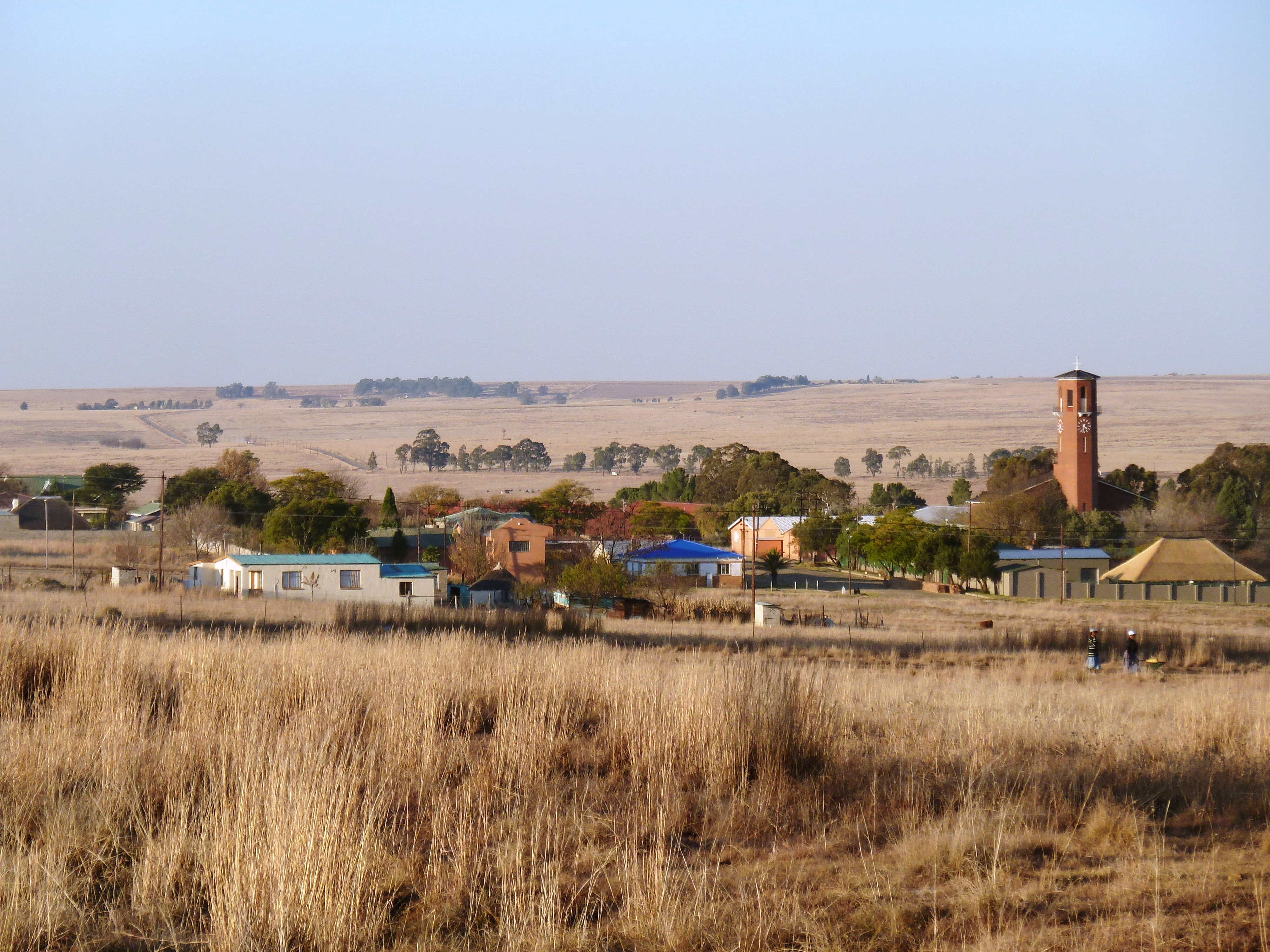 Cornelia in the Riemland region of the Free State, South Africa